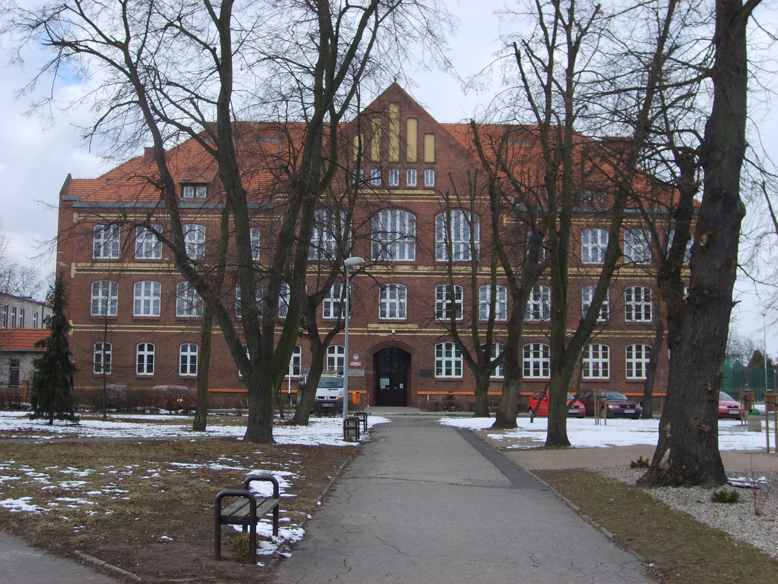 Elementary School No. 1 in Września